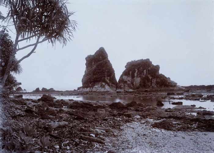 The beach at Tanjung Layar